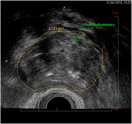 Prostate ultrasound